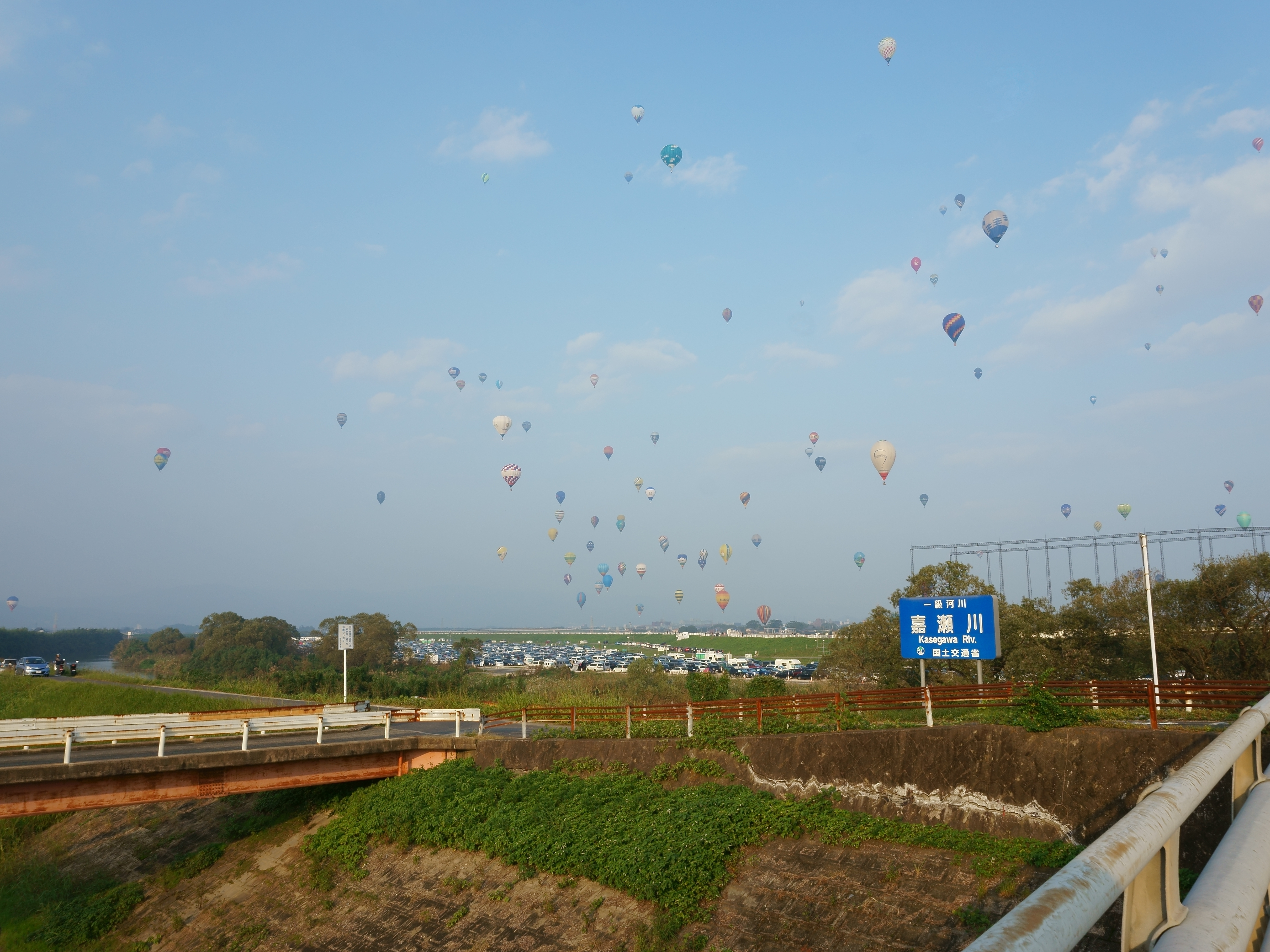 Hot air balloons are flying over Kase River.